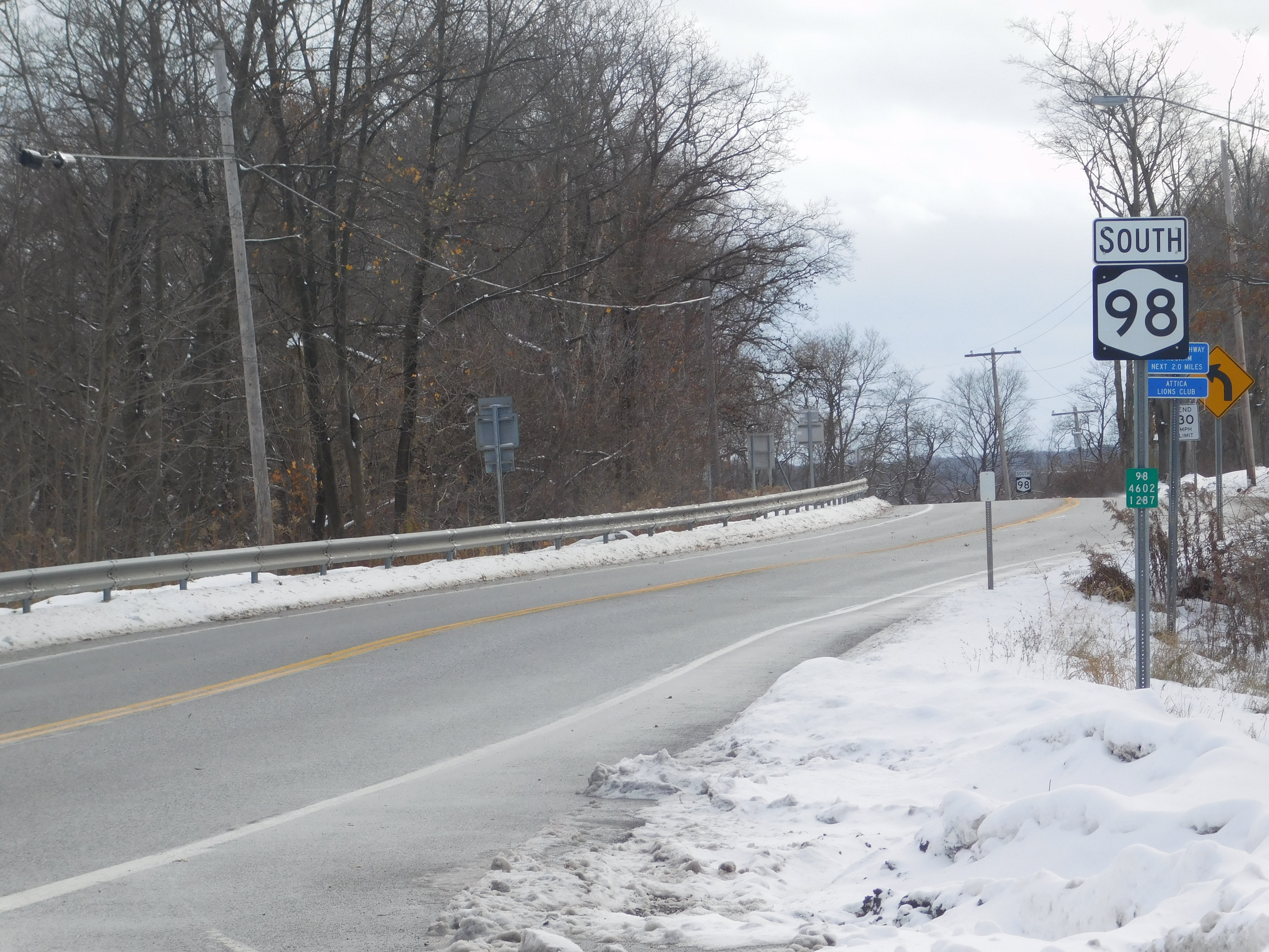 New York State Route 98 southbound in Attica, New York.